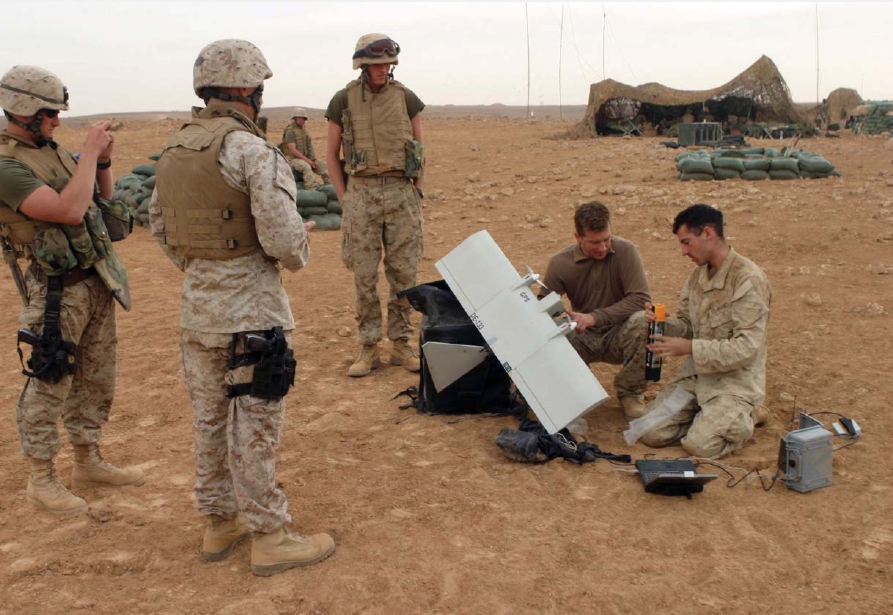 An RQ-14 Dragon Eye remote scouting system is assembled by U.S. Marines from A Company, 1st Battalion, 7th Marine Regiment, near Al Quaim, Iraq, in 2004.